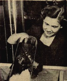 Lilly Daché puts hat in 1938 capsule as last item.